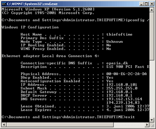 ipconfig